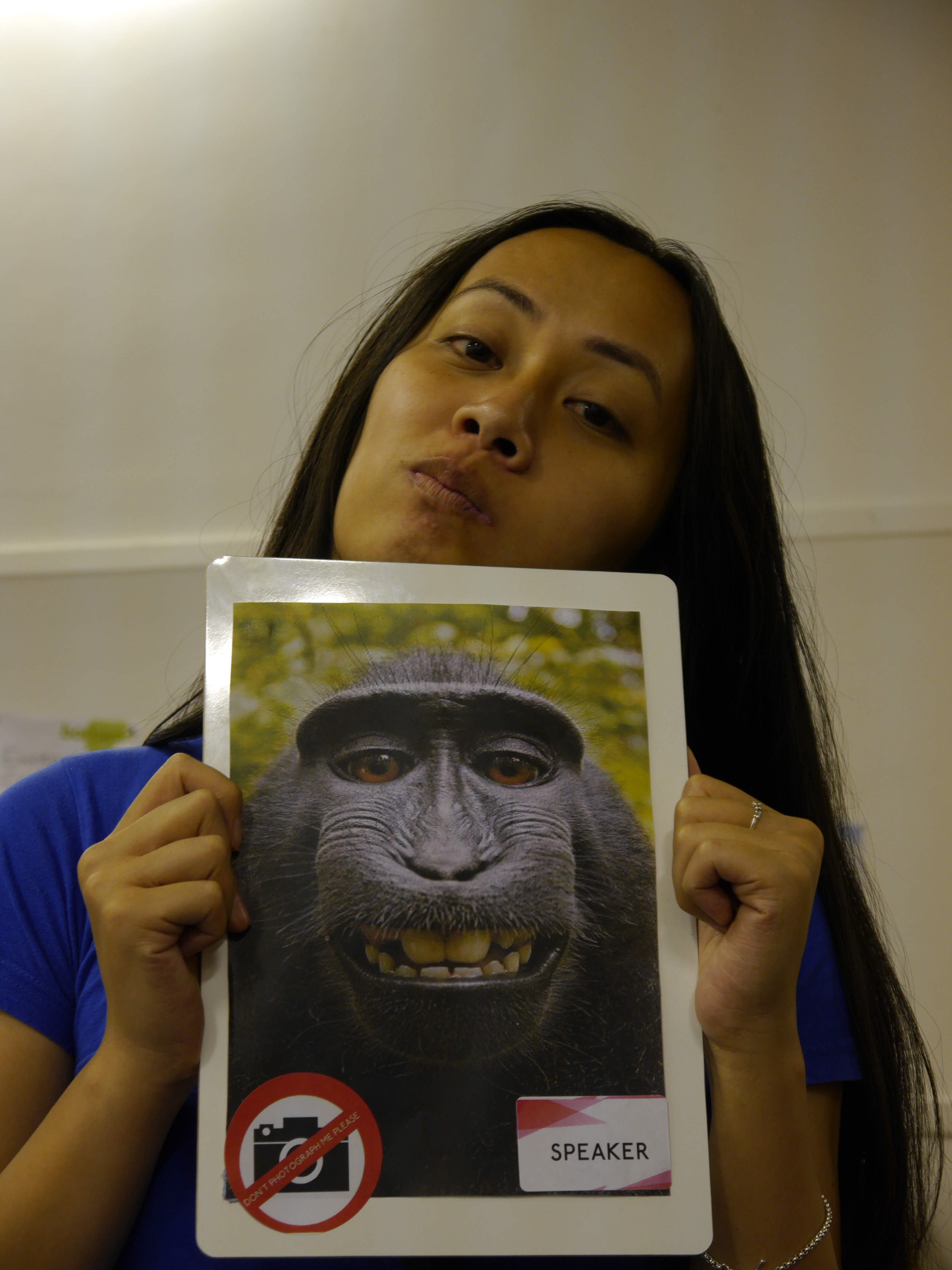 Katie Chan posing with the monkey selfie at Wikimania 2014